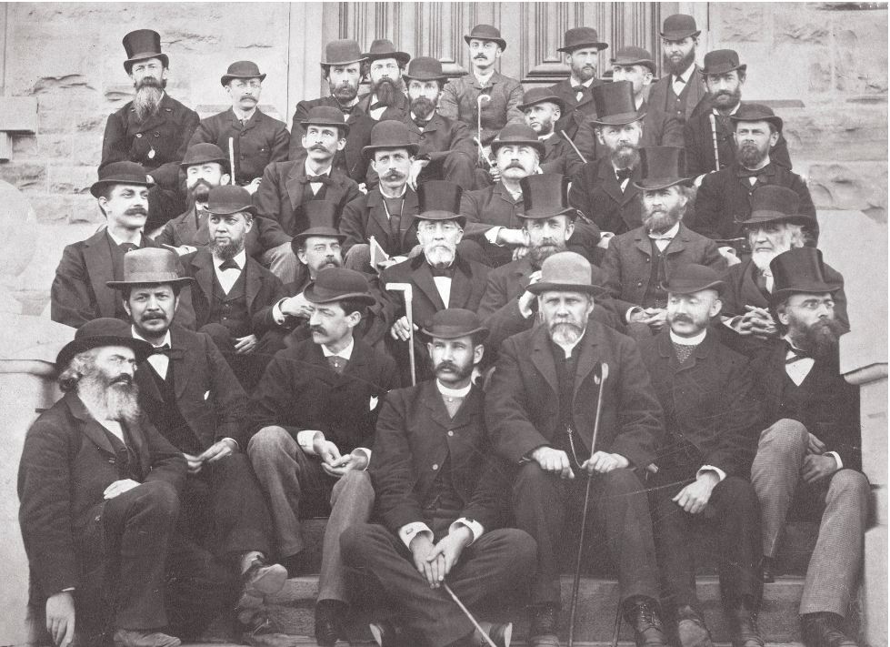 First printed in 1882. Description: "The Cornell University faculty members pose on the steps of McGraw Hall in 1882. Albumen print photograph."